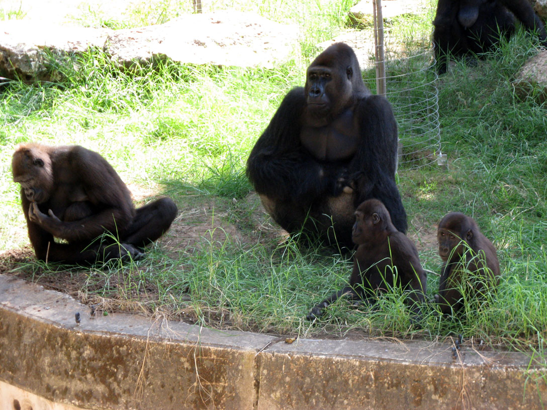 Gorilla family at Ramat Gan Safari